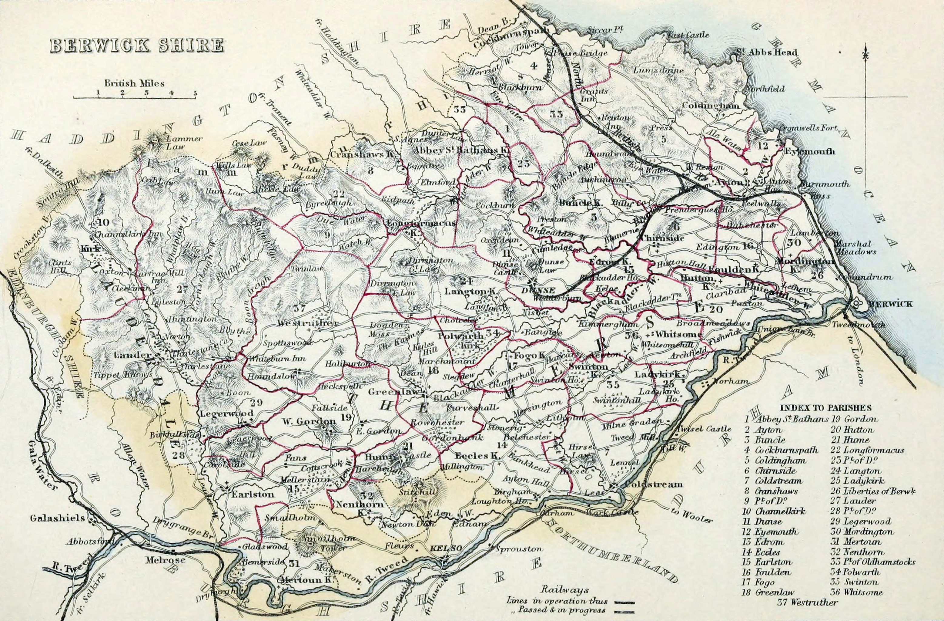 BERWICKSHIRE Civil Parish map. The Imperial gazetteer of Scotland. Vol.I. by Rev. John Marius Wilson.